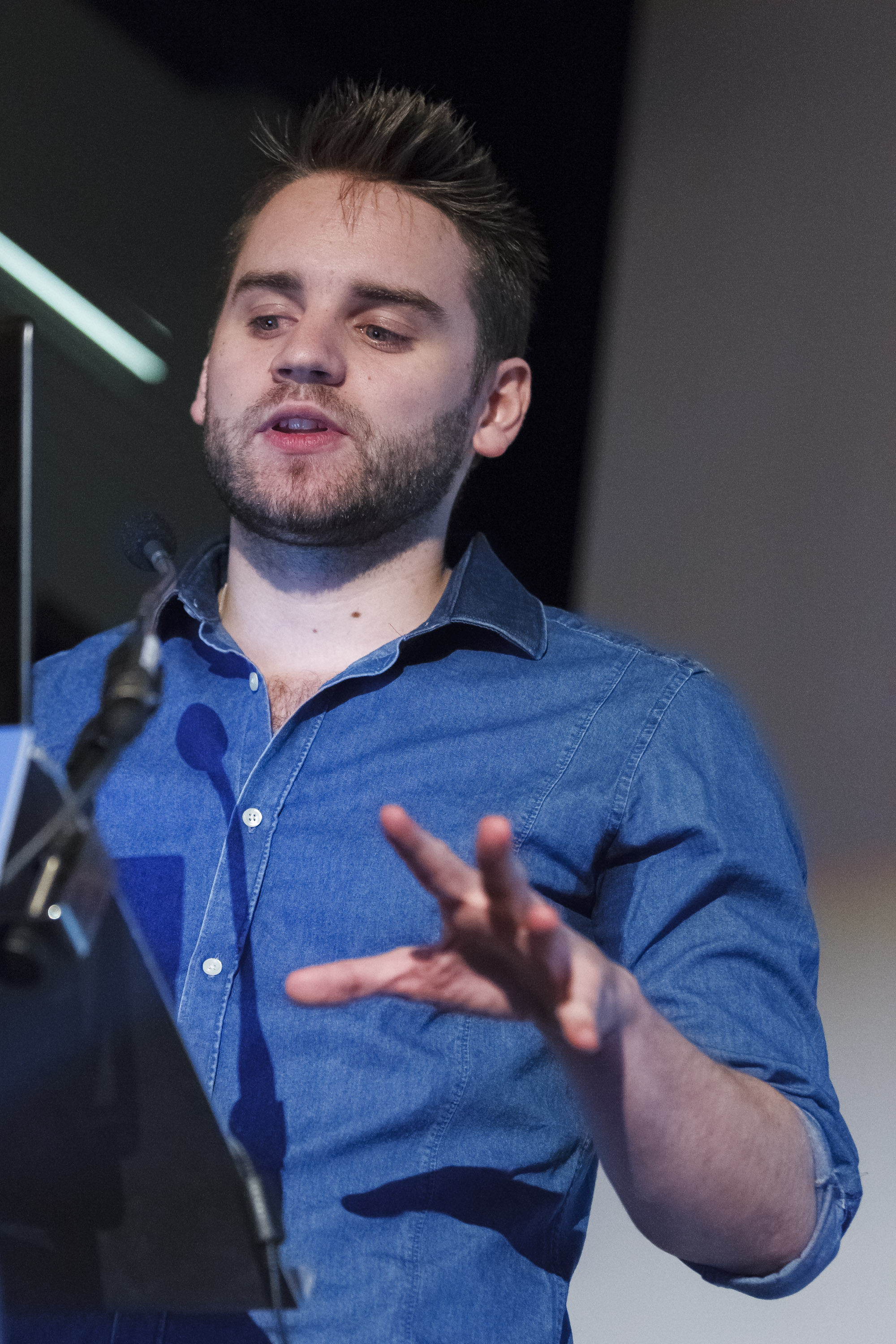 Photo of James Crowe, creative director of ARMA III